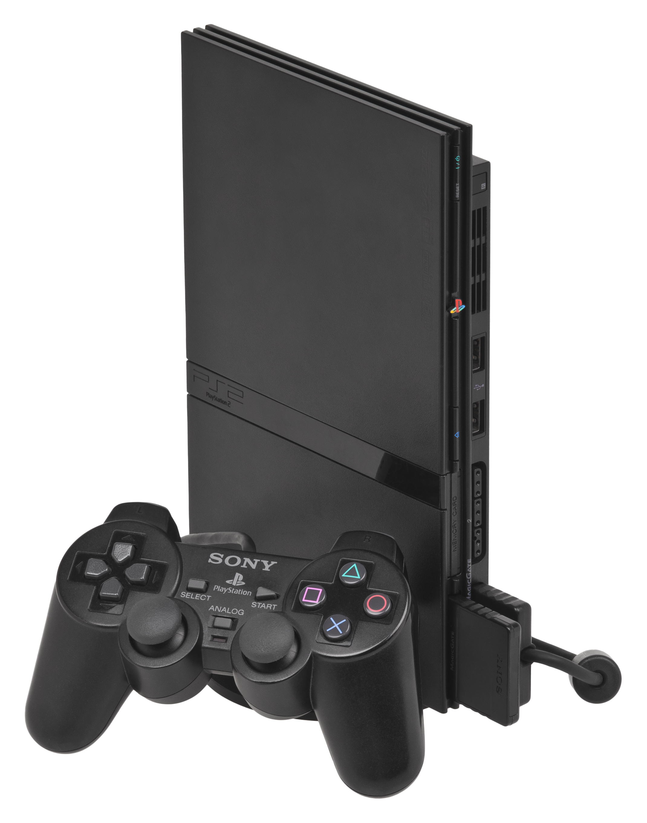 A Sony PlayStation 2, model SCPH-70001. Shown with 8MB memory card and DualShock 2 controller. This is the PNG version.